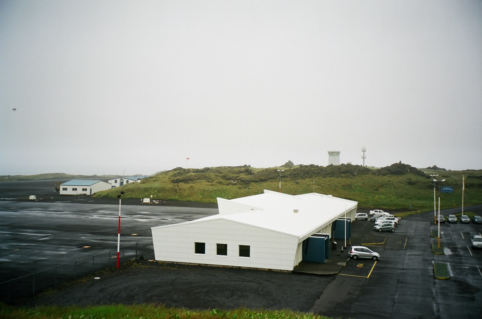 Airport terminal in Heimaey, Vestmann Islands, Iceland.